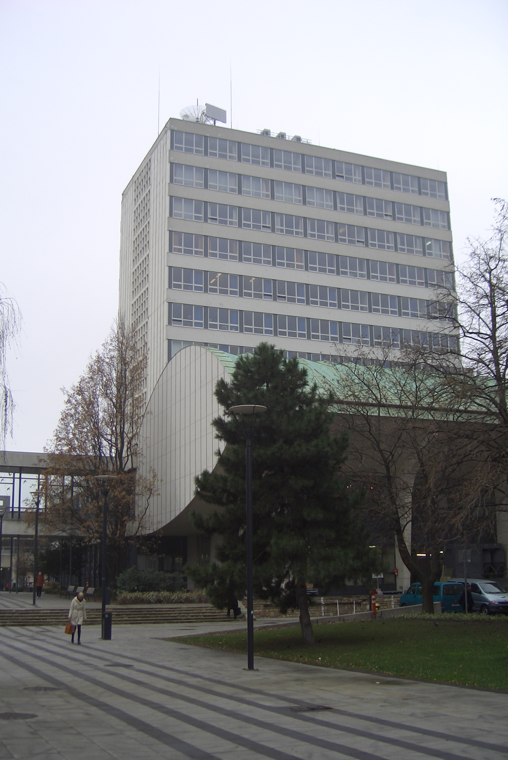 Budapest University of Technology and Economics, Building E, north view, Budapest, district 11, Egry József utca